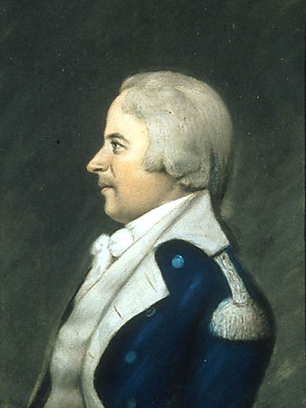 Portrait taken from life.